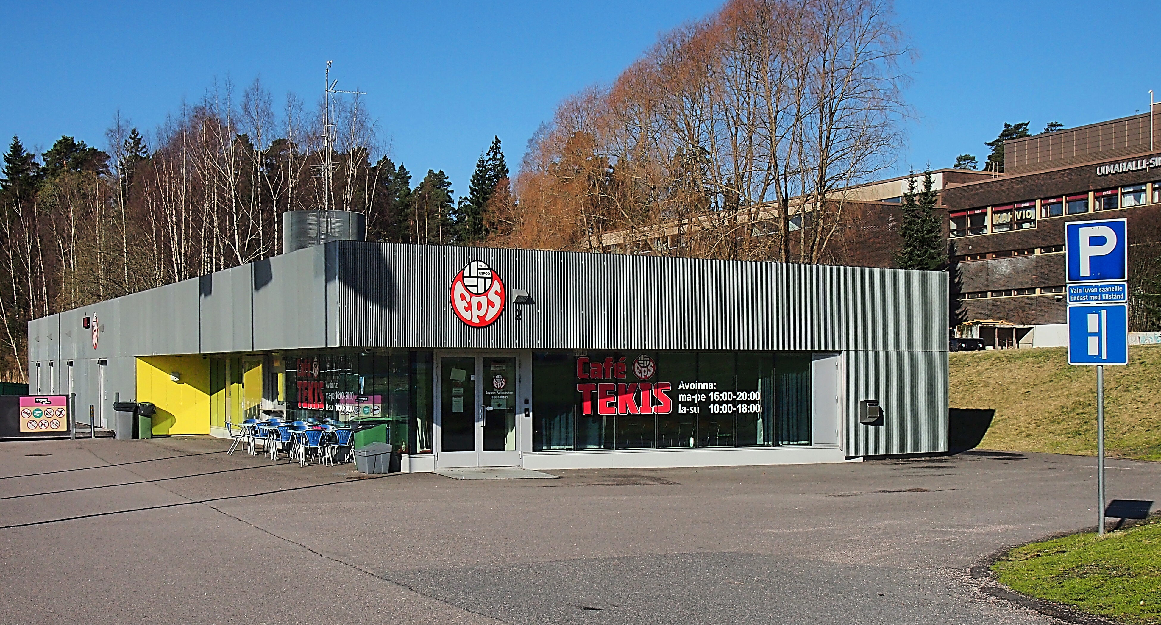 Café Tekis in Espoonlahti, Espoo, Finland.